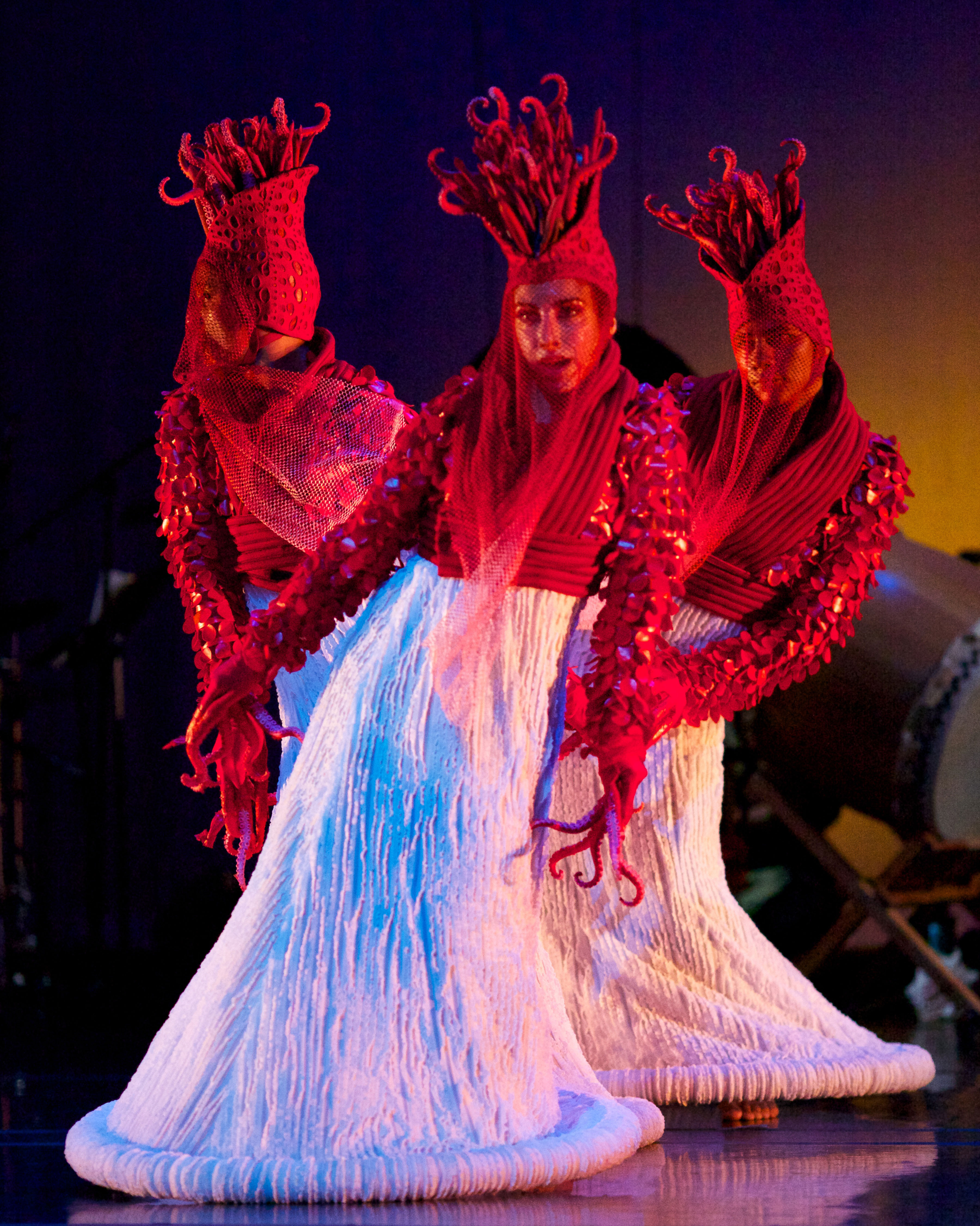 oki is known her solo performances which combine Japanese Noh and Kyogen theater with modern dance and live jazz. Most of her performance express themes of history, mixed race, home, gender, and mythology.